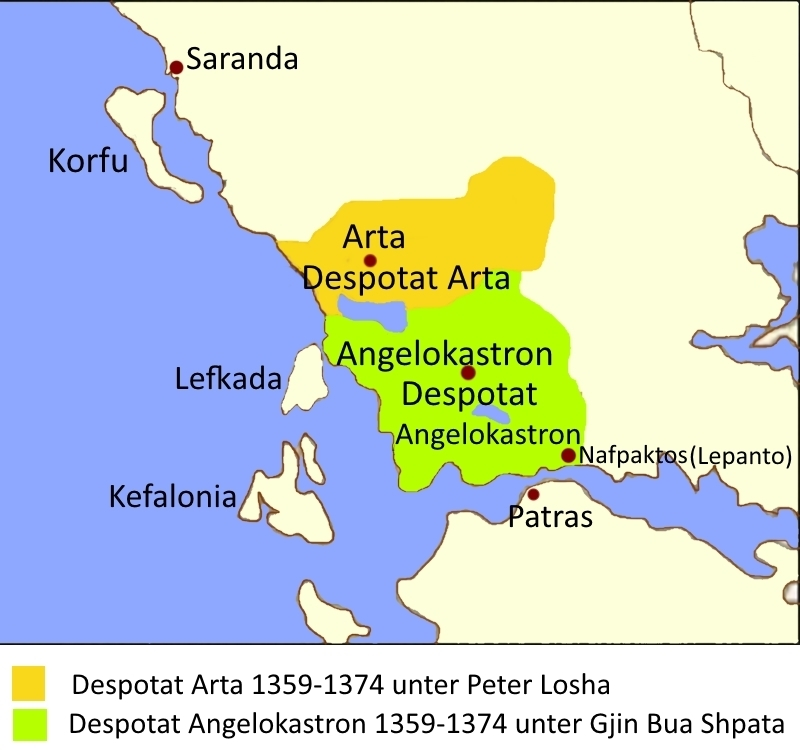 Despotate Arta under Peter Loscha and Despotate under Gjin Bua Shpata between 1359 and 1374